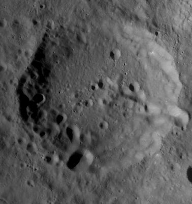 Trumpler lunar crater. LROC image WAC No. M118757165ME. Calibrated by LROC_WAC_Previewer.